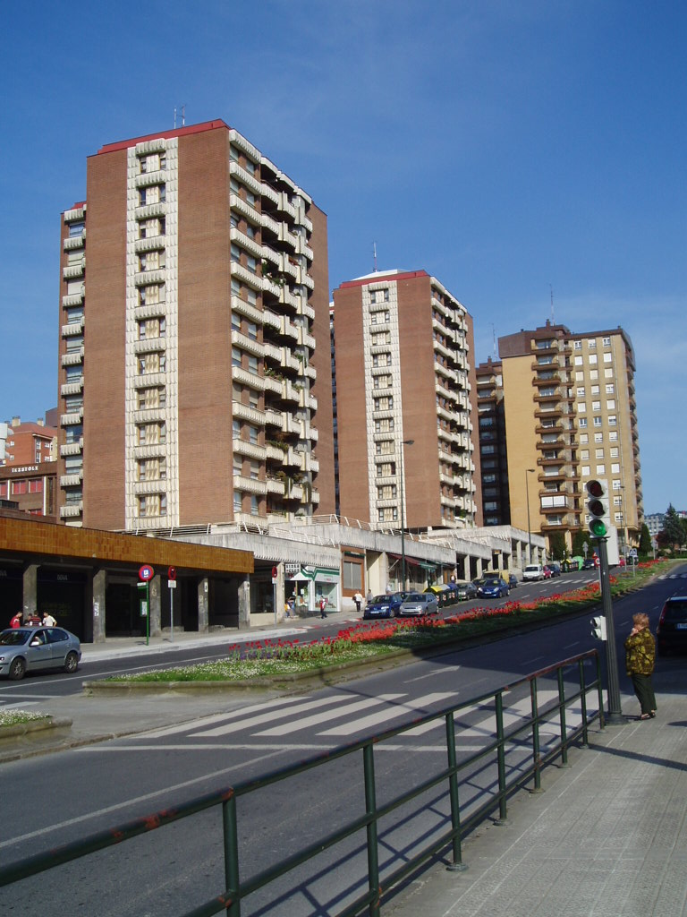 Txomin Garat (Dominique-Joseph Garat) avenue in Txurdinaga (Bilbao).